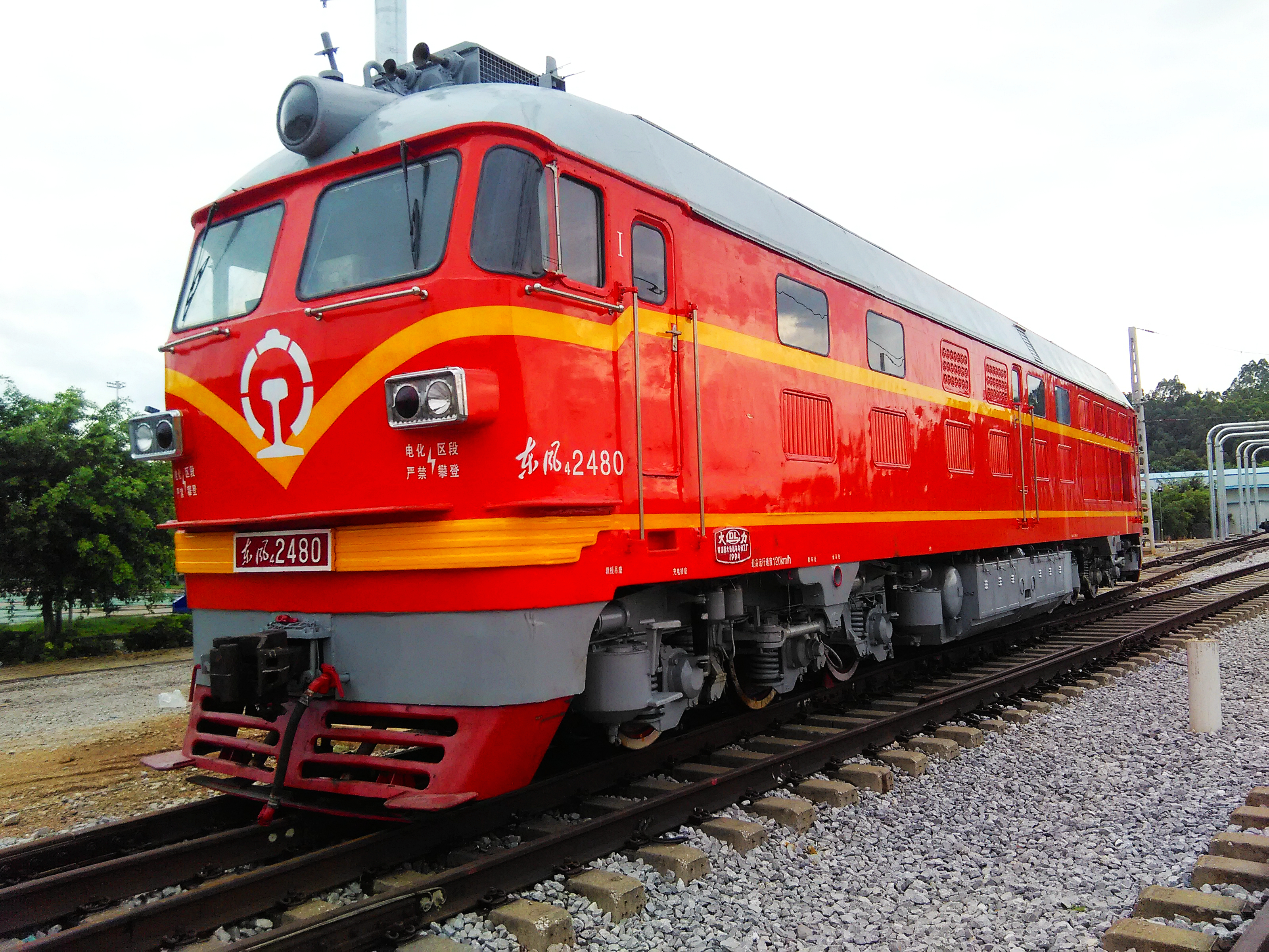 China Railways DF4B 2480 in Liuzhou Railway Vacational Technical College.